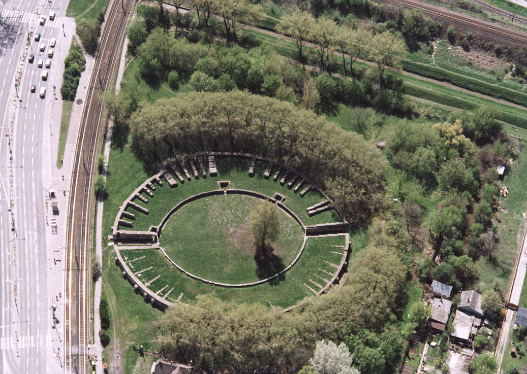 Civil Town amphitheater, Aquincum - bridge - Óbuda - Hungary - Europe